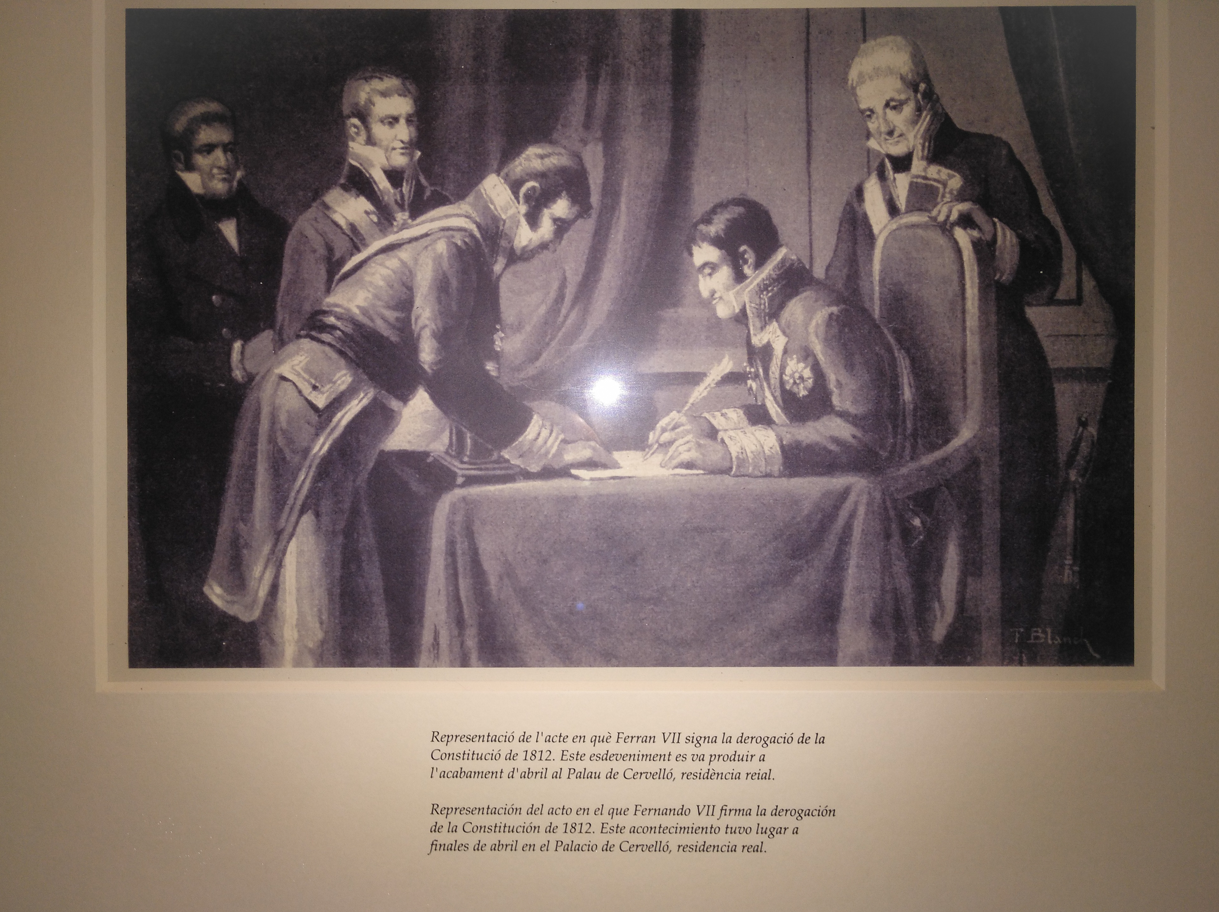 Repeal of the Constitution of 1812 by Fernando VII in the palace of Cervelló.